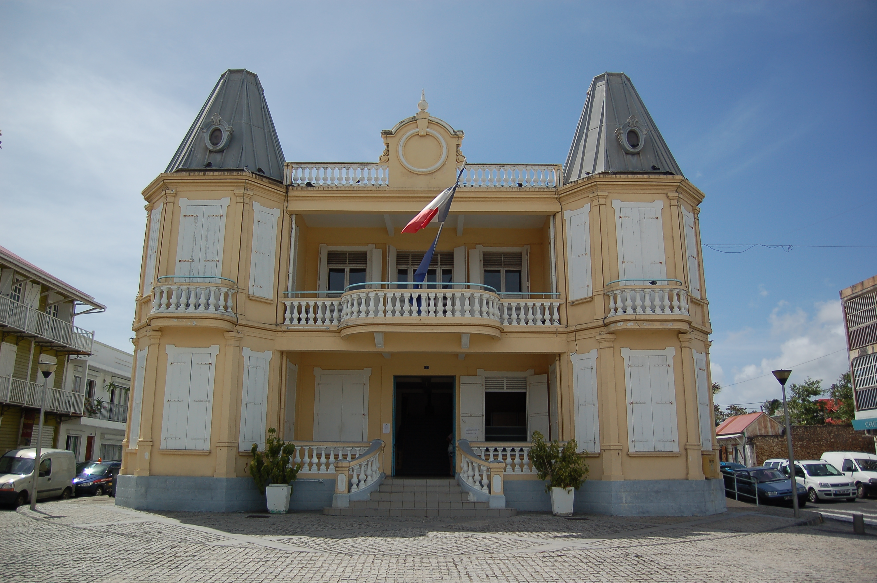 Town Hall in Le Moule, Guadeloupe.